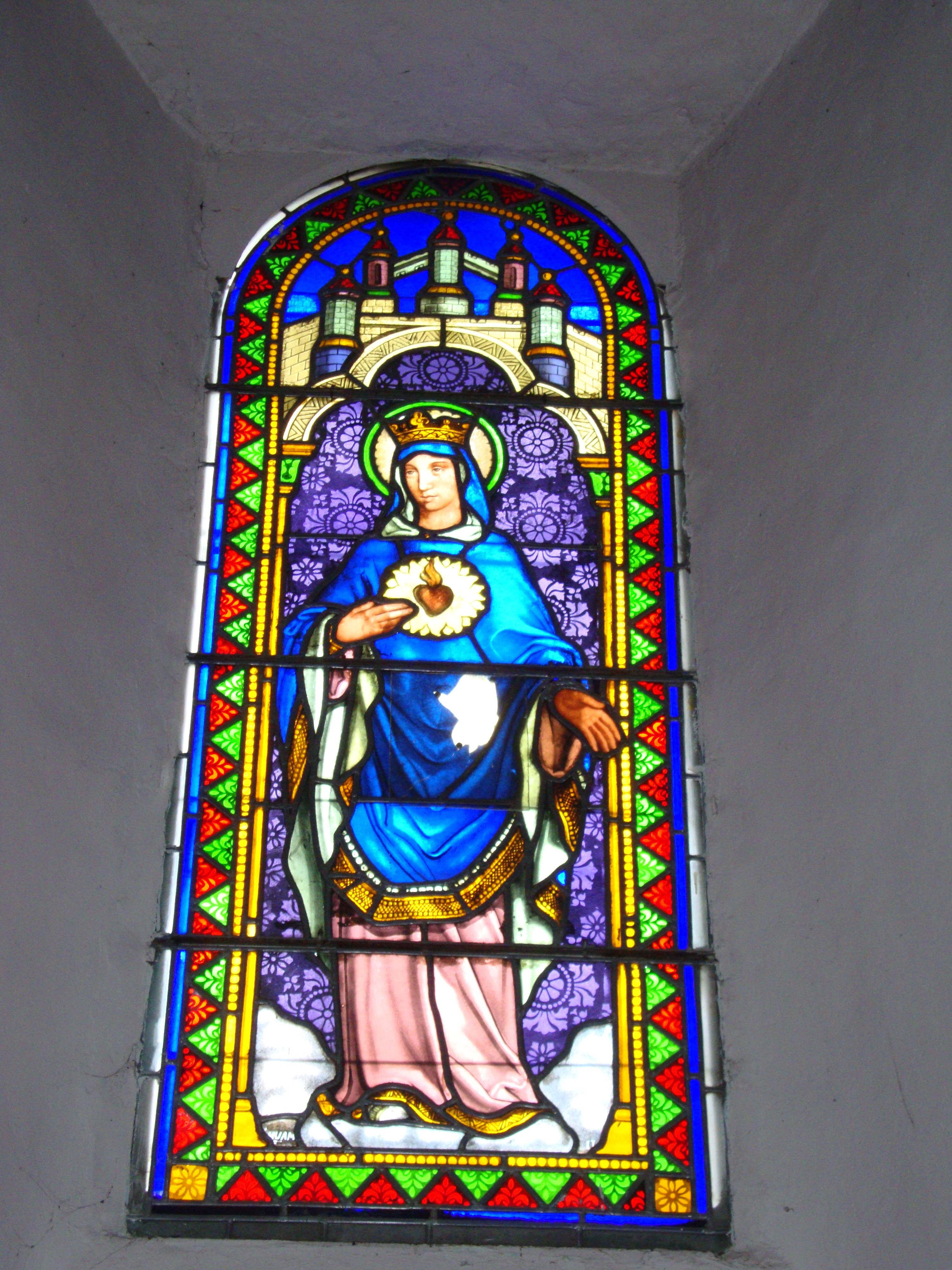 Osse-en-Aspe, stained glass window with Sacred heart of Virgin Mary; created by the workshop of Mauméjean in the fourth quarter in the 19th century (see signature in the lower left corner and [1])